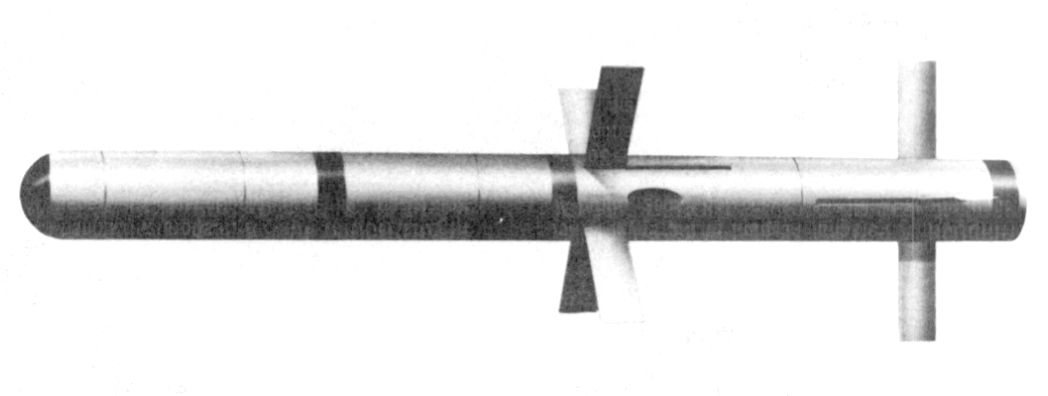 Hughes Tank Breaker missile.